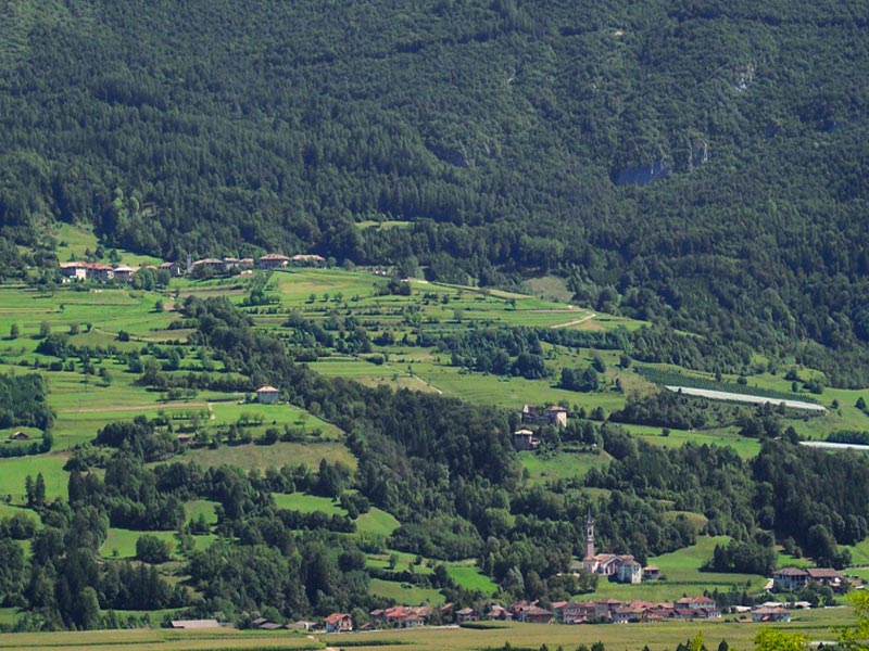 Il paese di Vigo Lomaso e sullo sfondo quello di Lundo